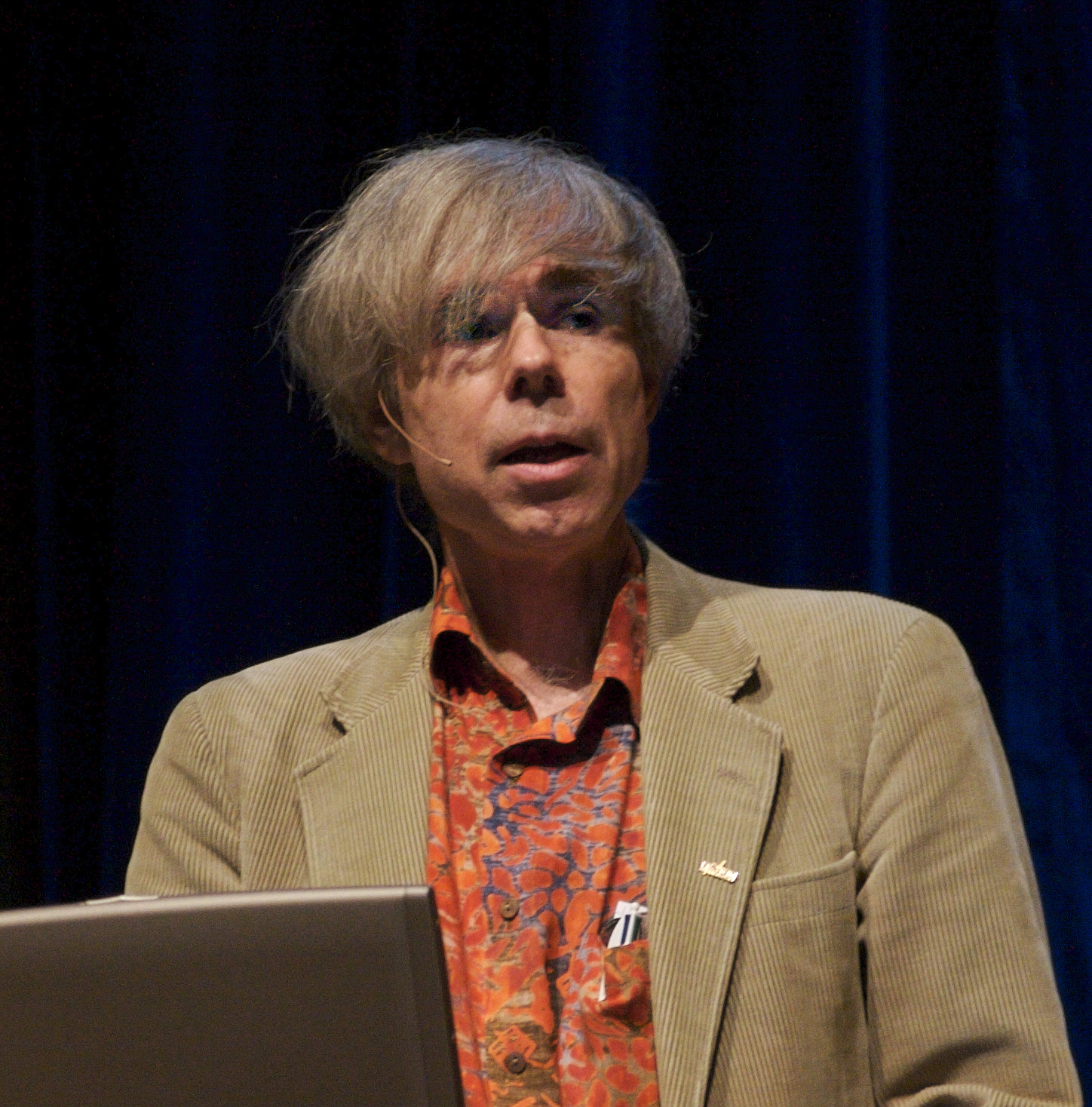 Douglas Hofstadter, an American academic.